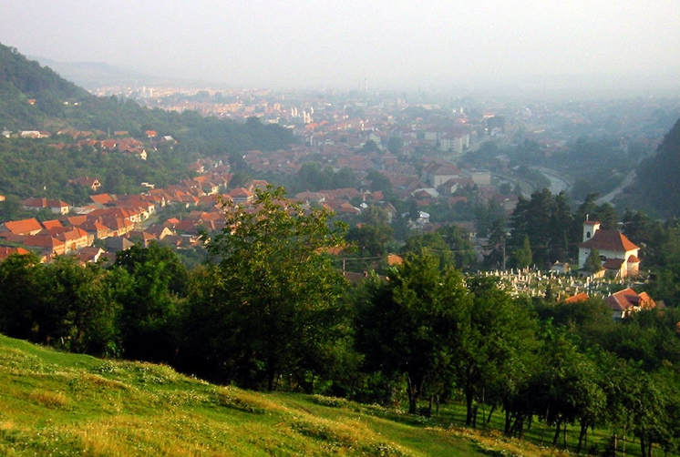 „the city unfolds itself“ – Cugir in Romania